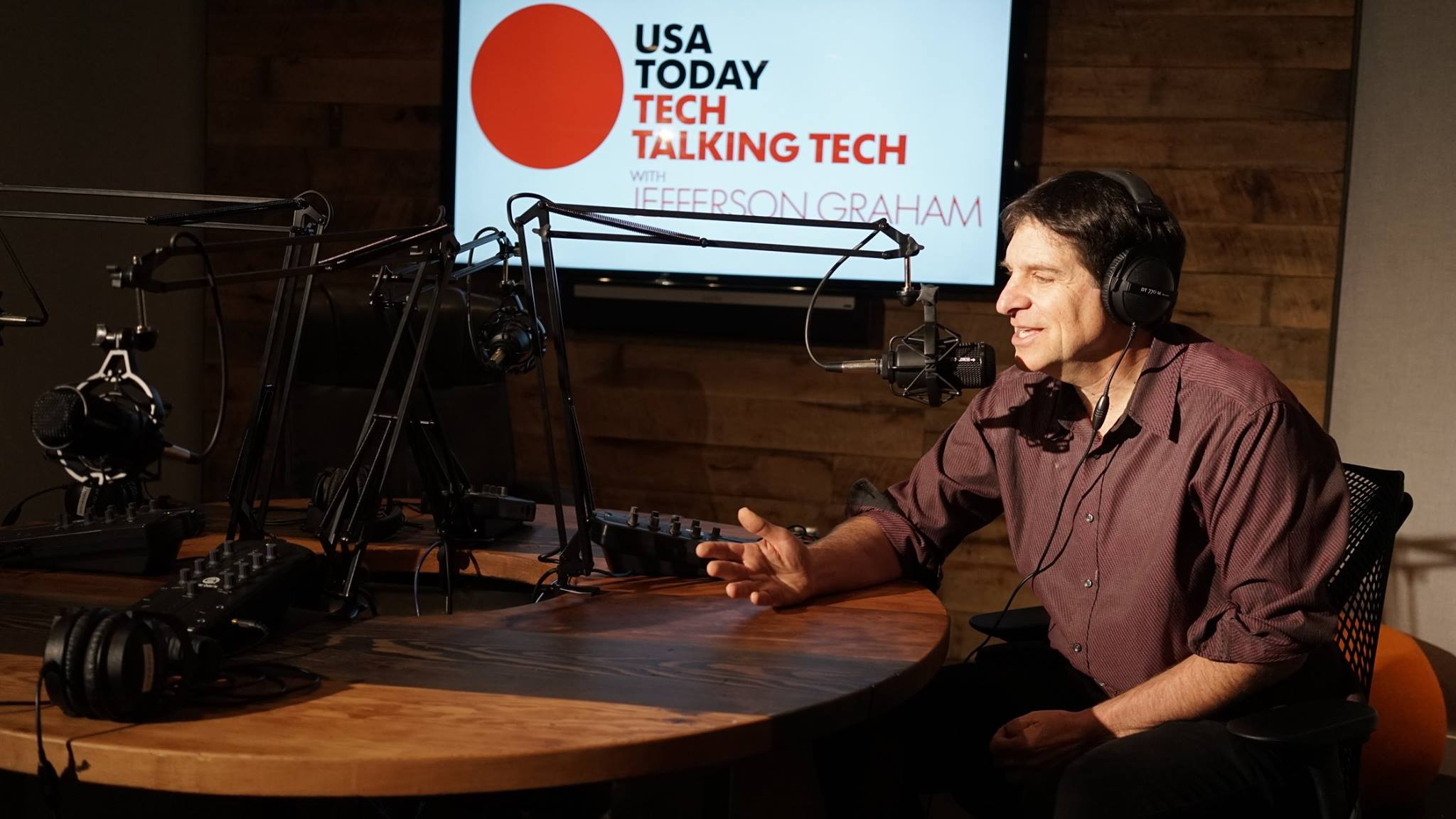 Jefferson Graham at the studios, Venice Beach, California. He is the host of USA TODAY's Talking Tech video and audio series.